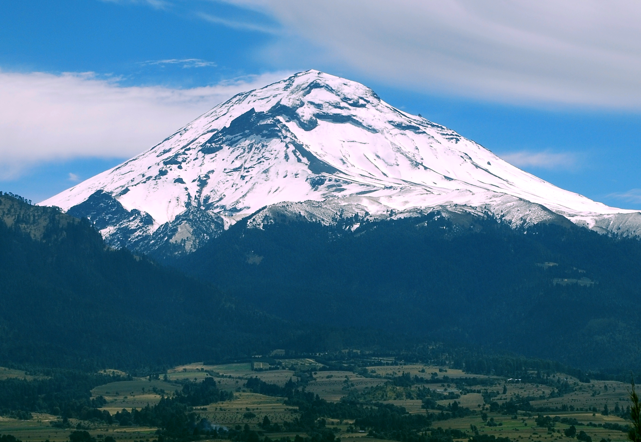 View of the Popocatepetl volcano from Amecameca, Mexico State